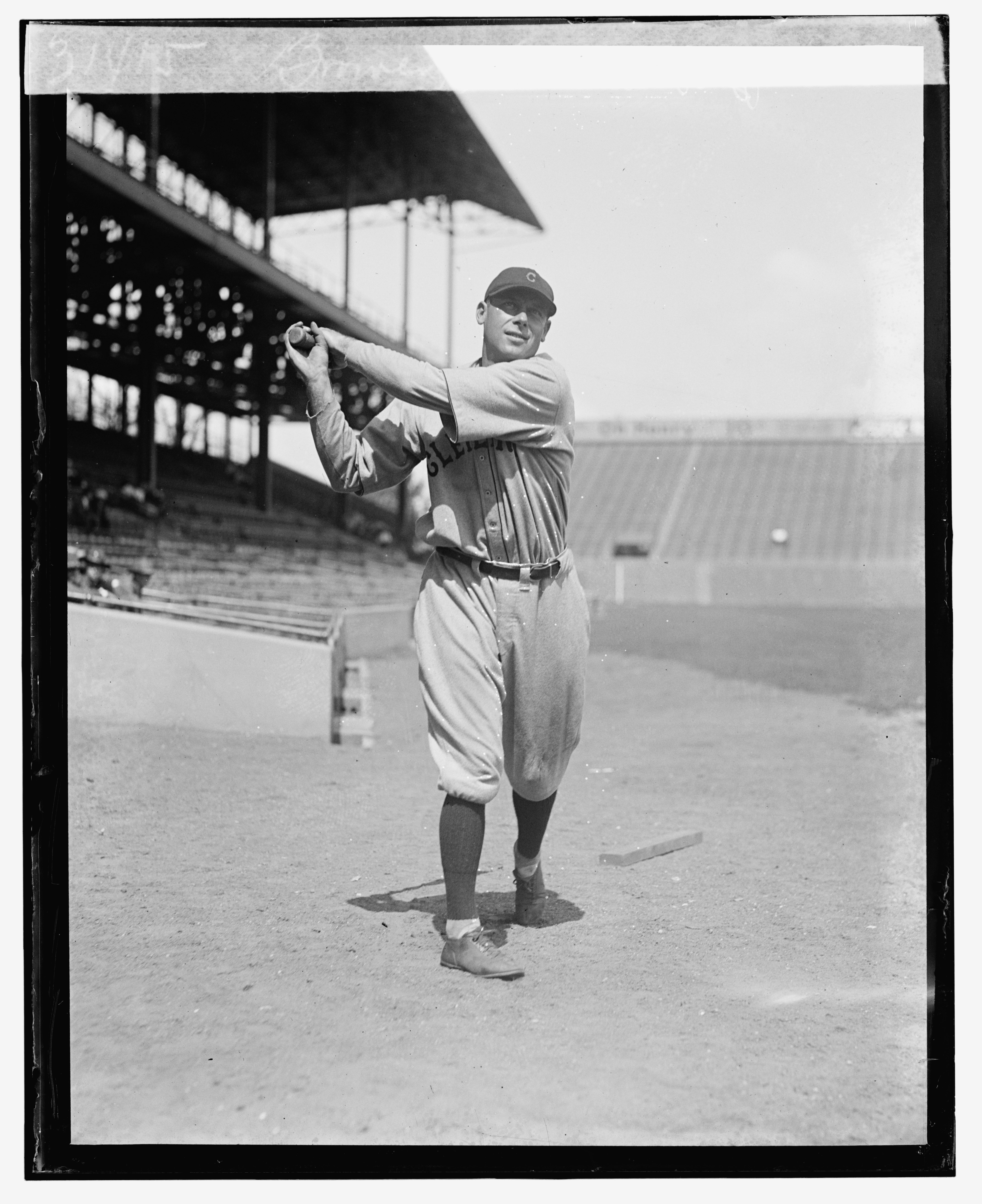 Title: Brower, Cleveland, 1924 Abstract/medium: National Photo Company Collection (Library of Congress) Physical description: 1 negative